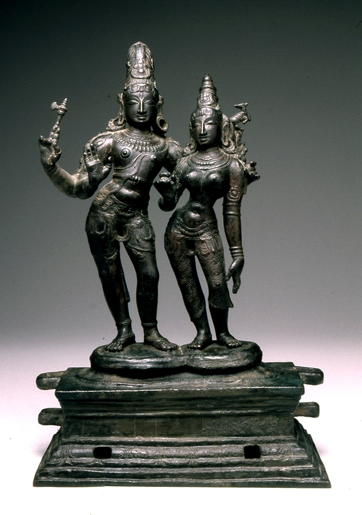 The curves of Shiva's body are echoed by the swaying pose of his partner Uma. The battleaxe in Shiva's upper right hand destroys illusion, represented by the deer seen over Uma's shoulder.